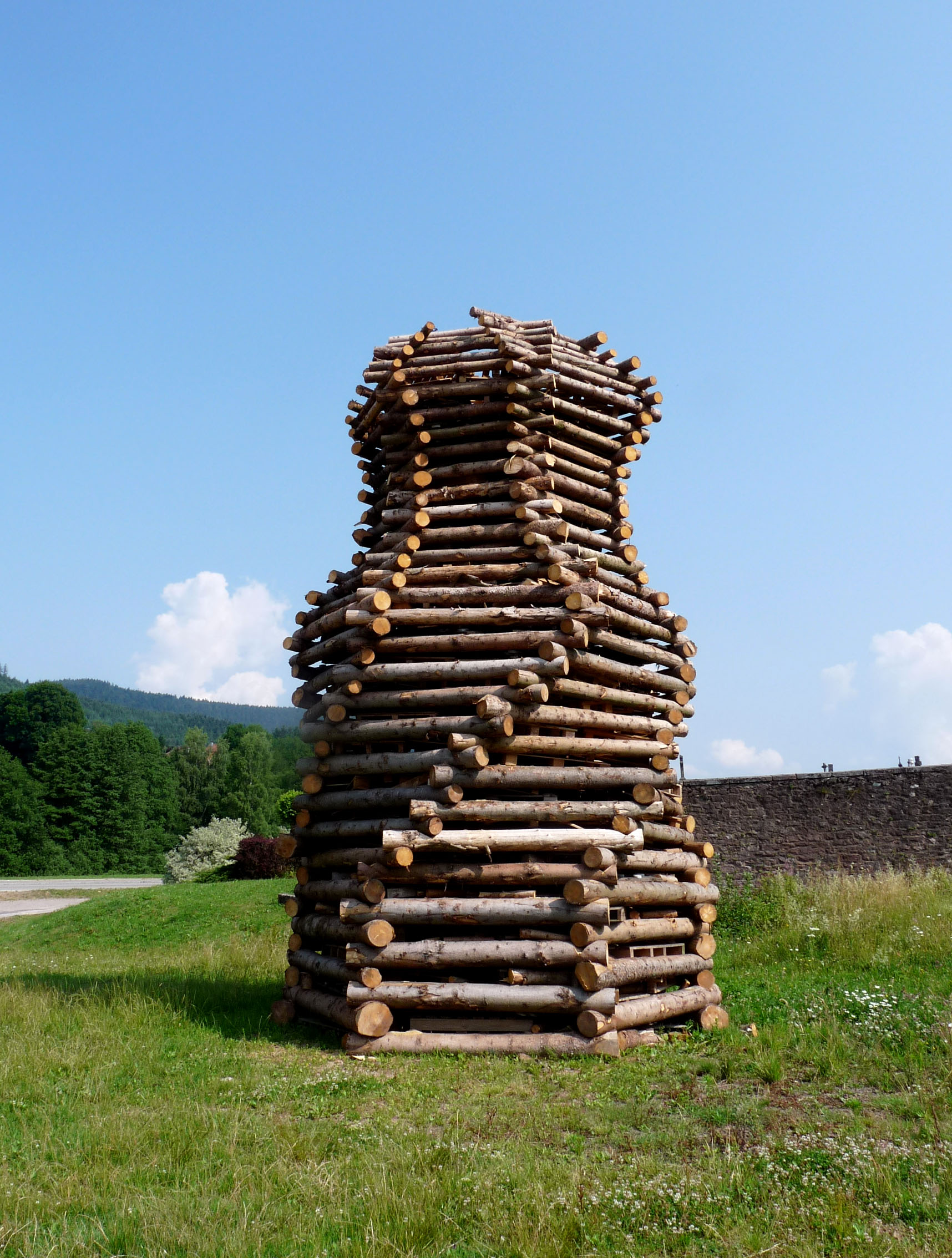 Midsummer night bonfire in Bourg-Bruche